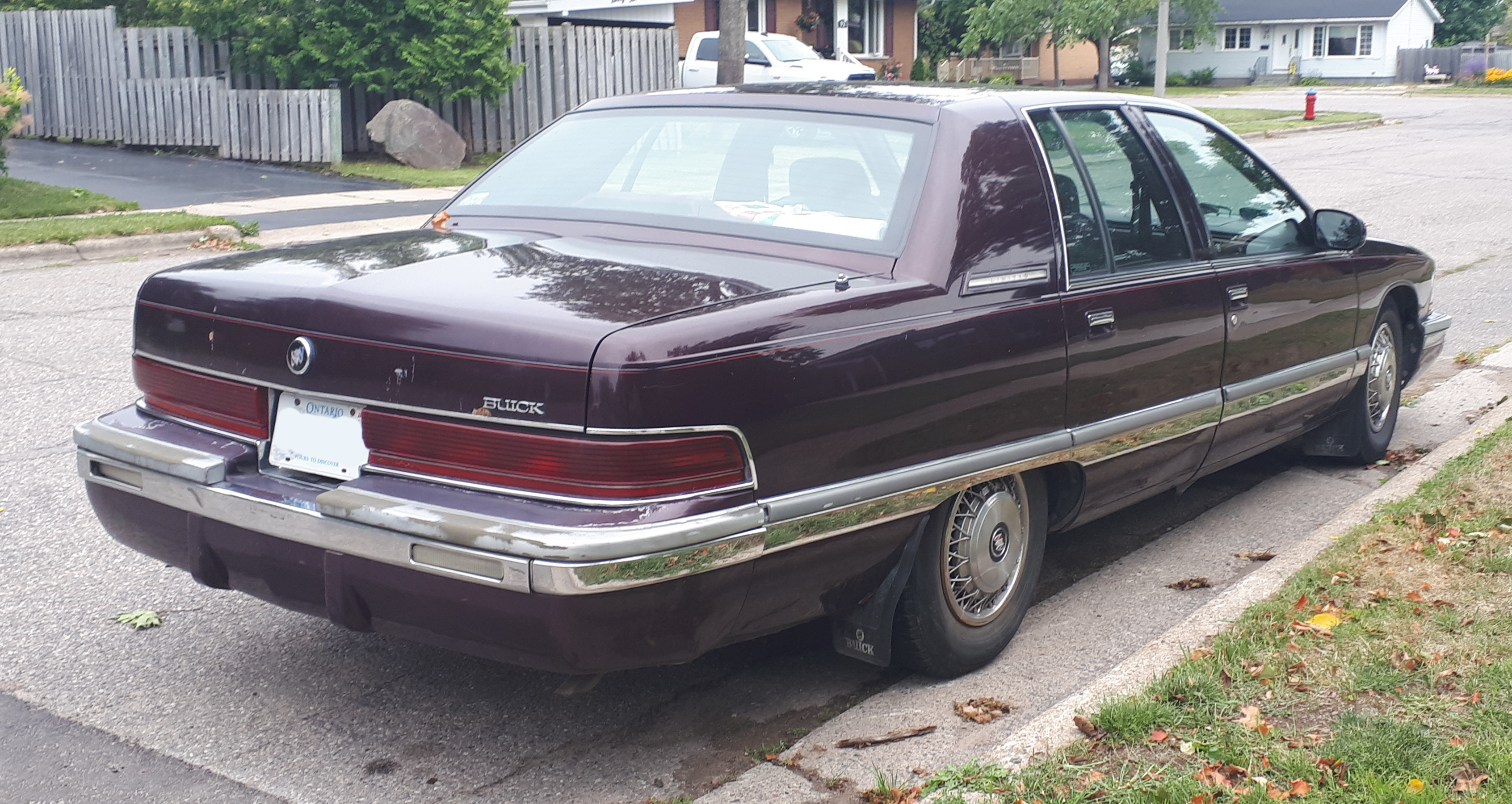 1991-1996 Buick Roadmaster photographed in Sault Ste. Marie, Ontario, Canada